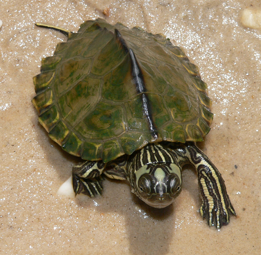 Ernst's Map Turtle